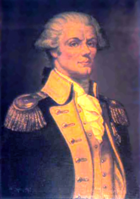 Portrait of Tadeusz Kosciuszko at the Polish American Museum in Port Washington, New York